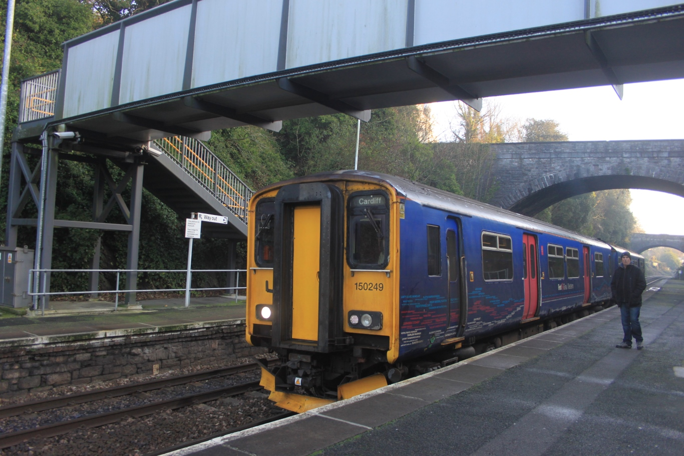 Great Western Railway's 150249 calls at Devonport station. Despite the "Cardiff" destination display it is going to Penzance.